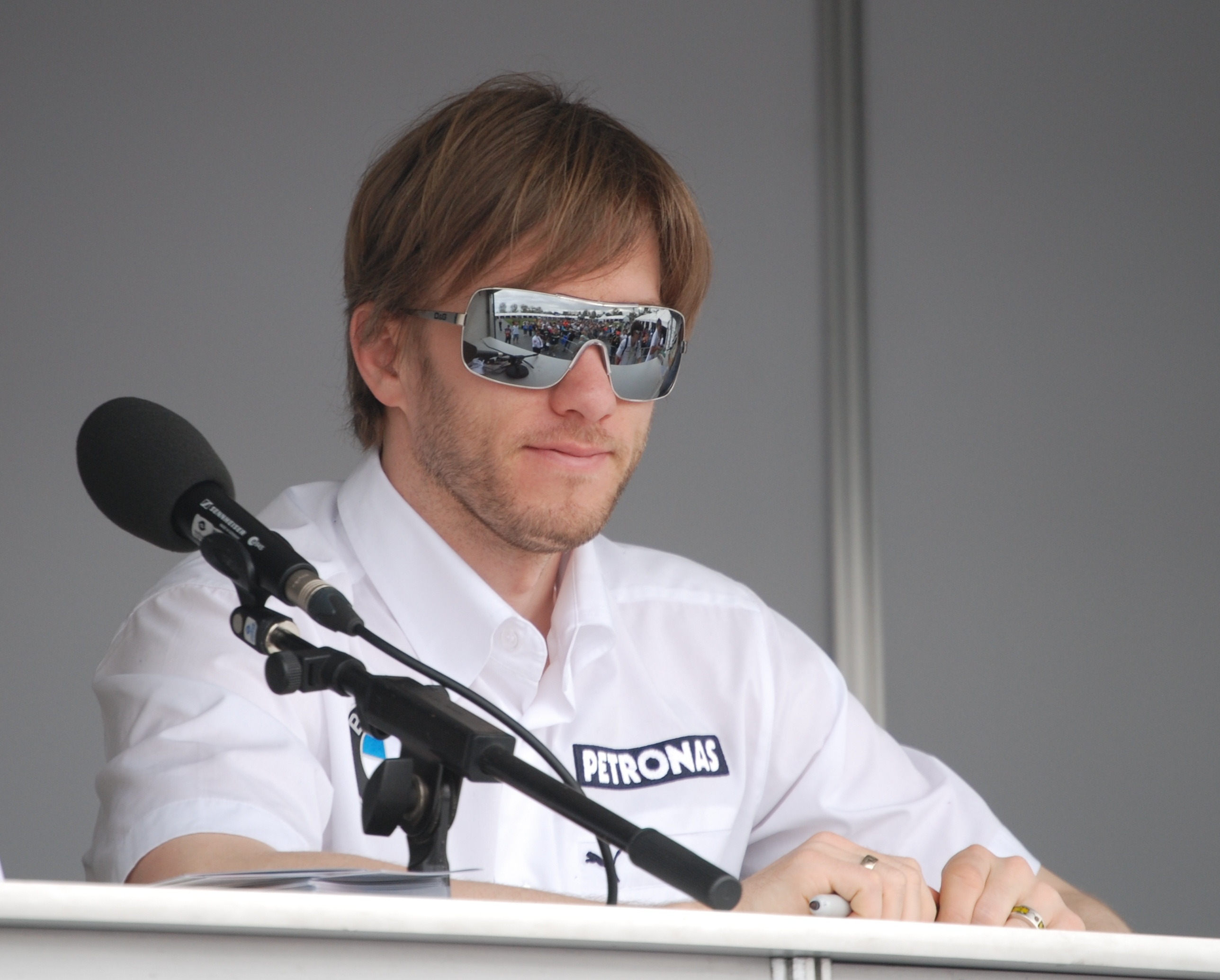 Nick Heidfeld at the 2009 Australian Grand Prix.